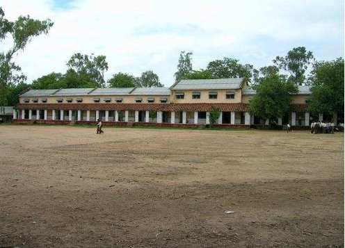 Building of Pt.Lajja Shankar Jha, Government Model Higher Secondary School, Jabalpur